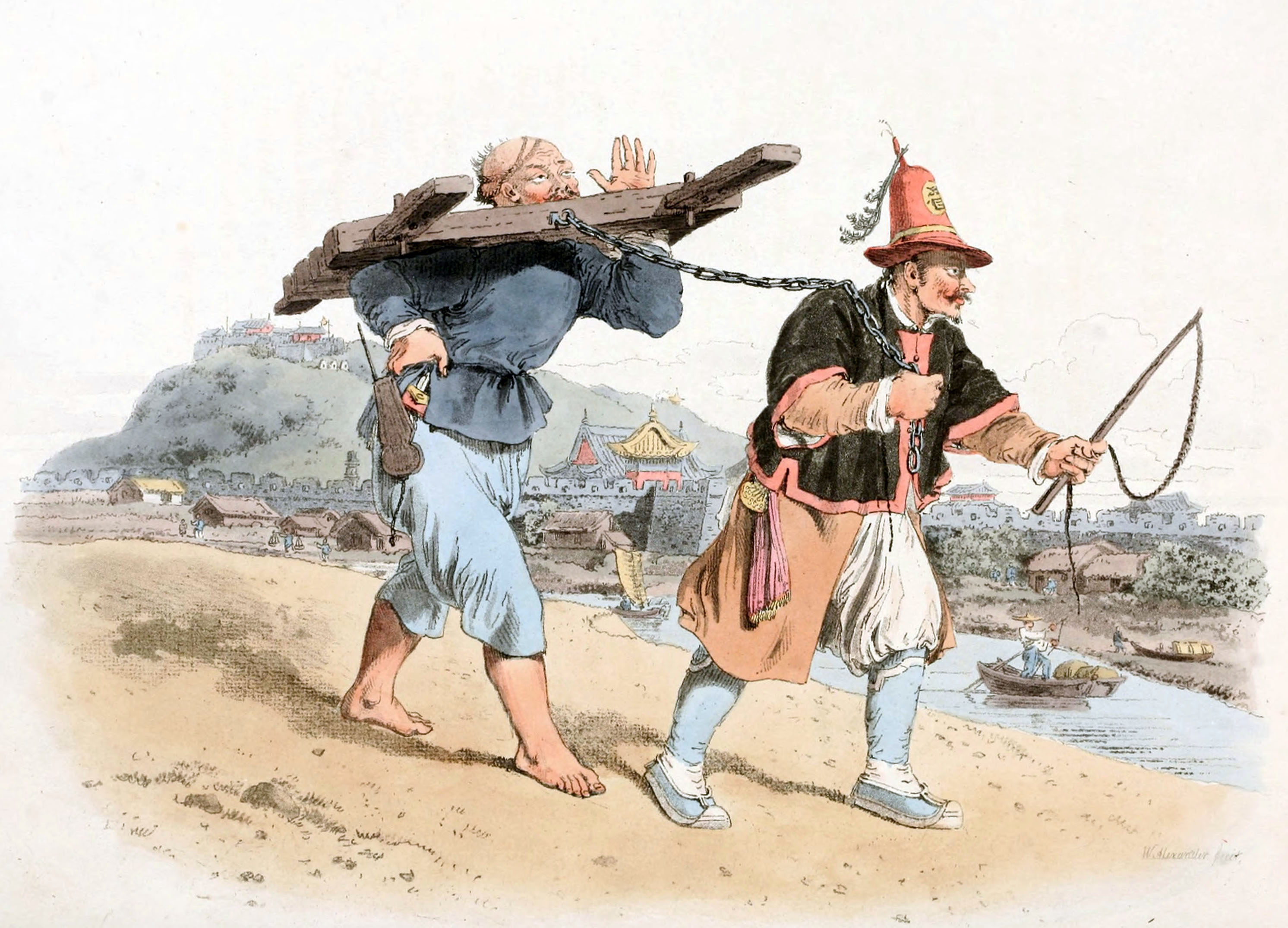 Drawing by William Alexander, draughtsman of the Macartney Embassy to China in 1793. The prisoner wearing a tcha, known to Europeans as cangue, is being led on a chain by a magistrates assistant, to a gate of a city or any place frequented by the populace, where he is exposed for the day to derision. The division in the cangue which receives the head, is kept together by pegs, and secured by a slip of paper pasted over the joint, on which is affixed the seal of the court official and written the cause of punishment. A tcha (cangue) was a heavy collar of wood; the weight (from sixty to two hundred pounds) and duration (from one day to three months) depended on the magnitude of the crime. When the prisoner was released, he was treated with a bamboo stick to complete the punishment. Image taken from The Costume of China, illustrated in forty-eight coloured engravings, published in London in 1805.